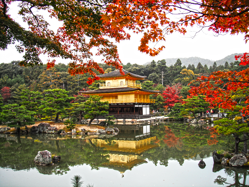 Golden Pavilion in Autumn